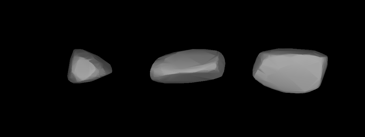 A three-dimensional model of 3170 Dzhanibekov that was computed using light curve inversion techniques.